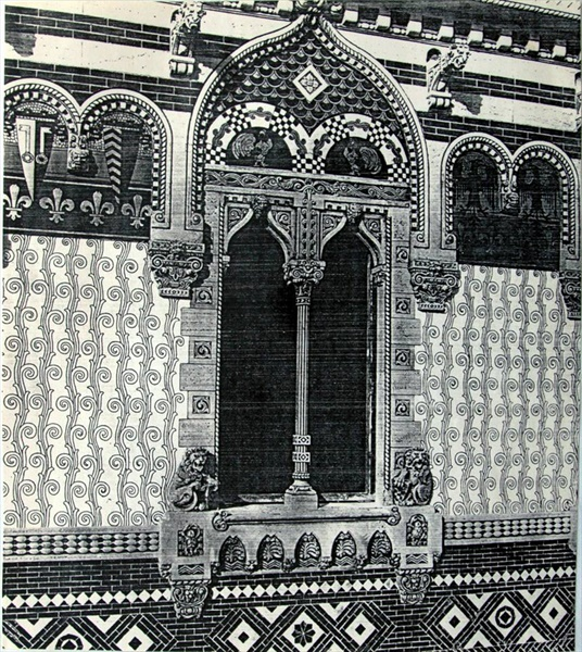 Messina, bifora, Palazzo del Granchio o Banco Cerruti o Palazzo Coppedè, Via Garibaldi